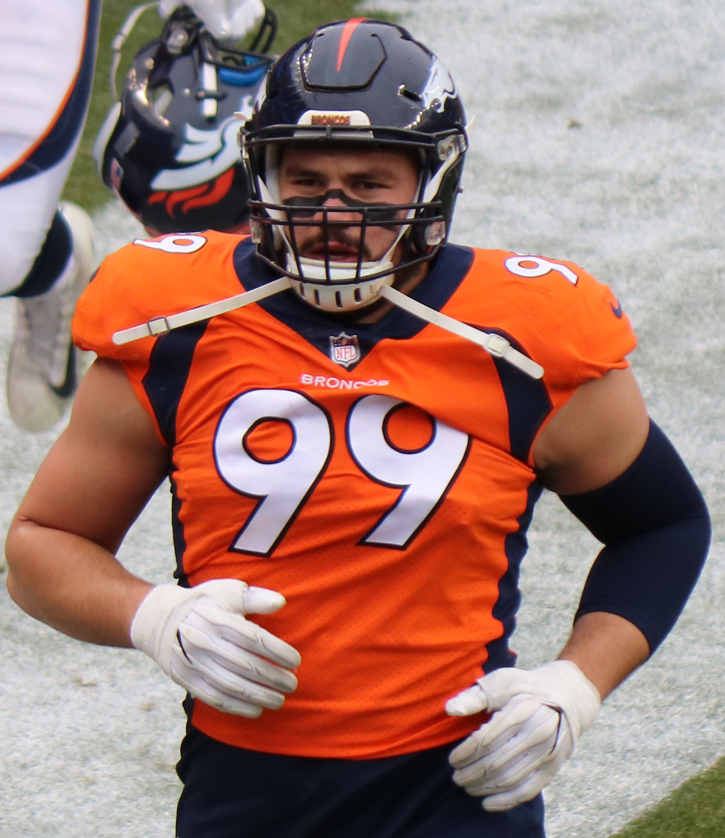 Adam Gotsis, a National Football League player.